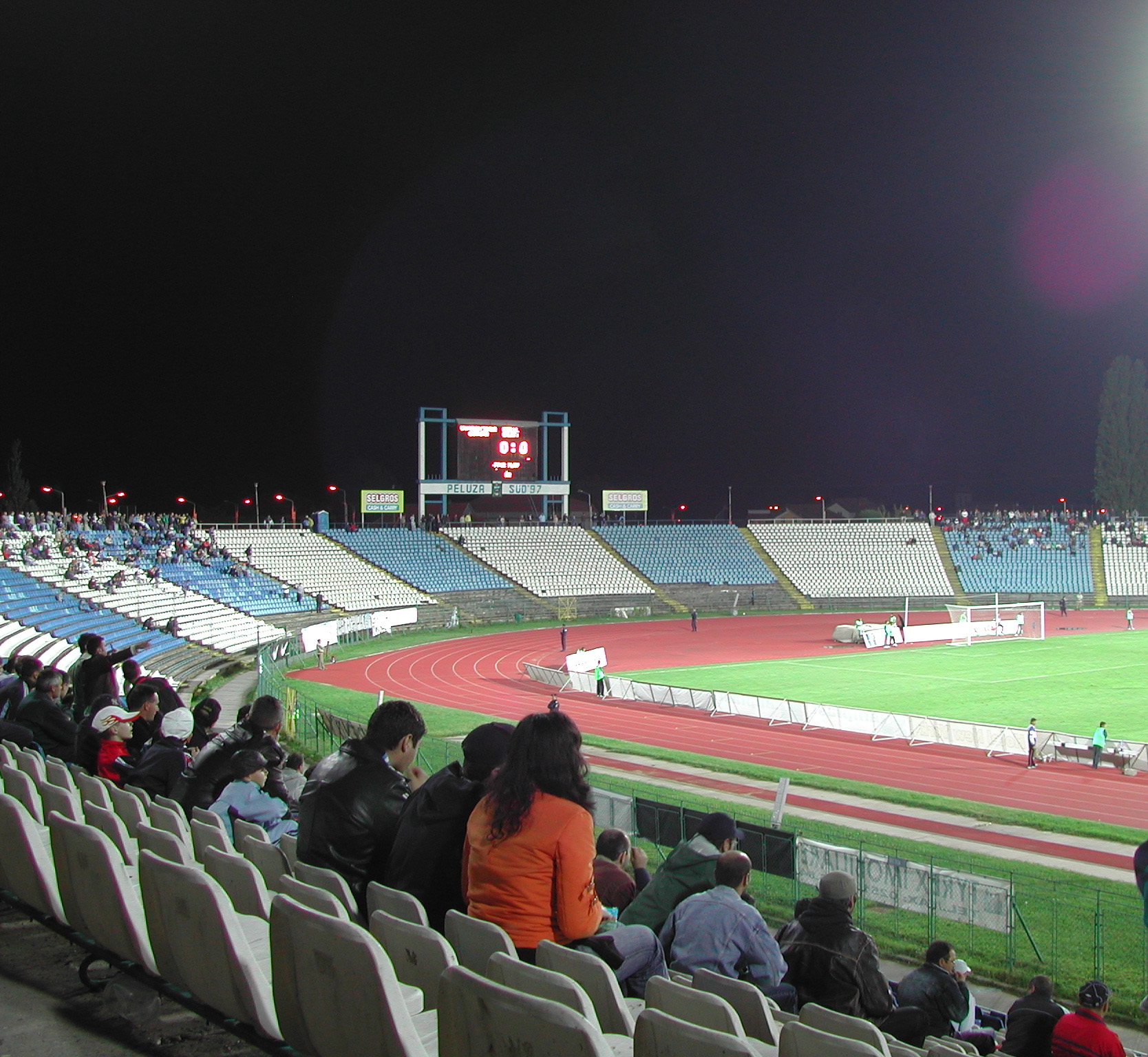 This picture shows the score board of the stadium Ion Oblemenco in Craiova, Romania.